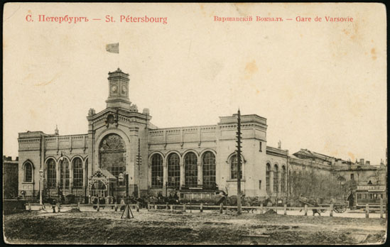 Saint Petersburg (Russia), Varshavsky Rail Terminal.